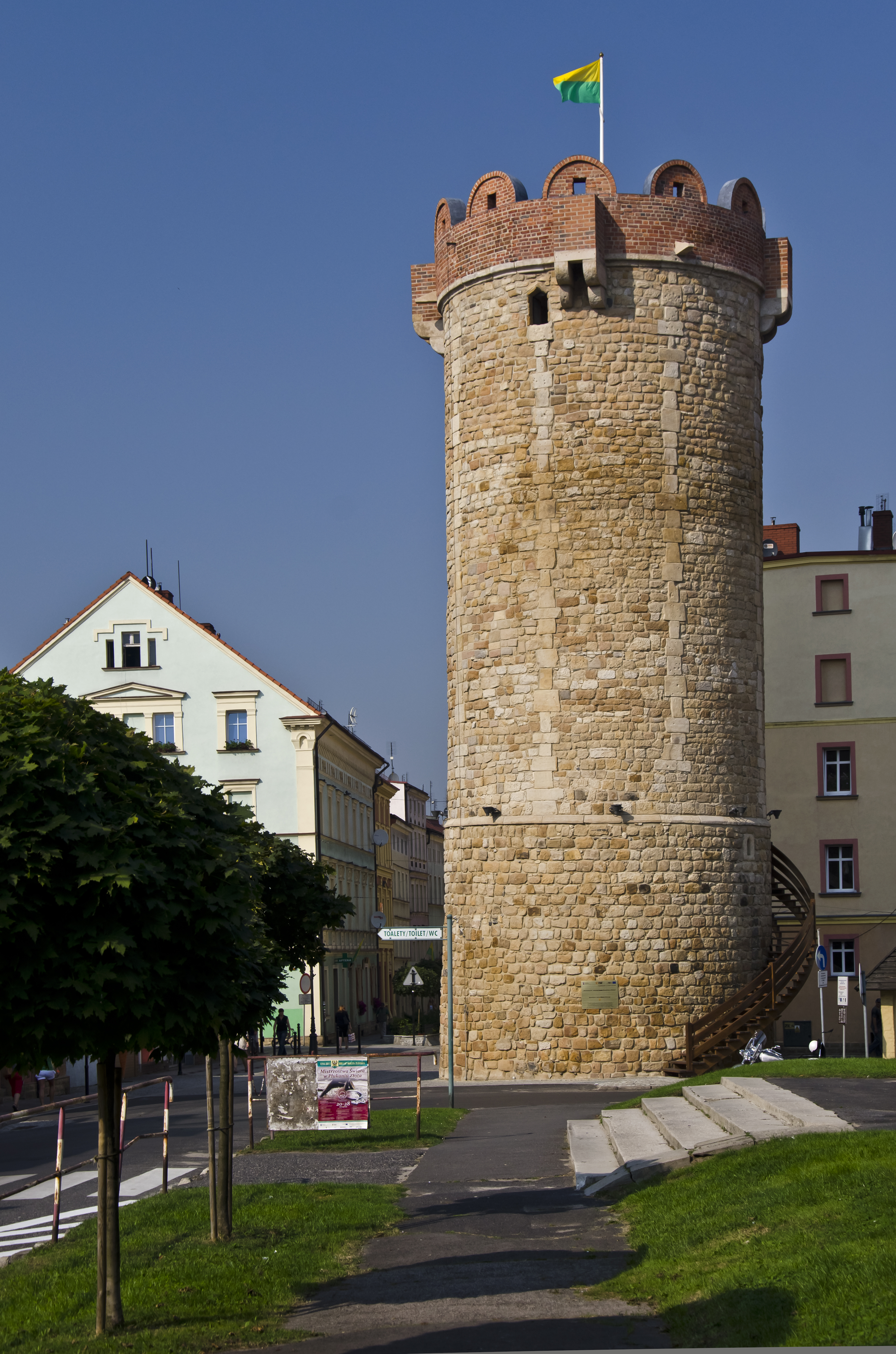 Smith's Tower. Złotoryja. Poland.